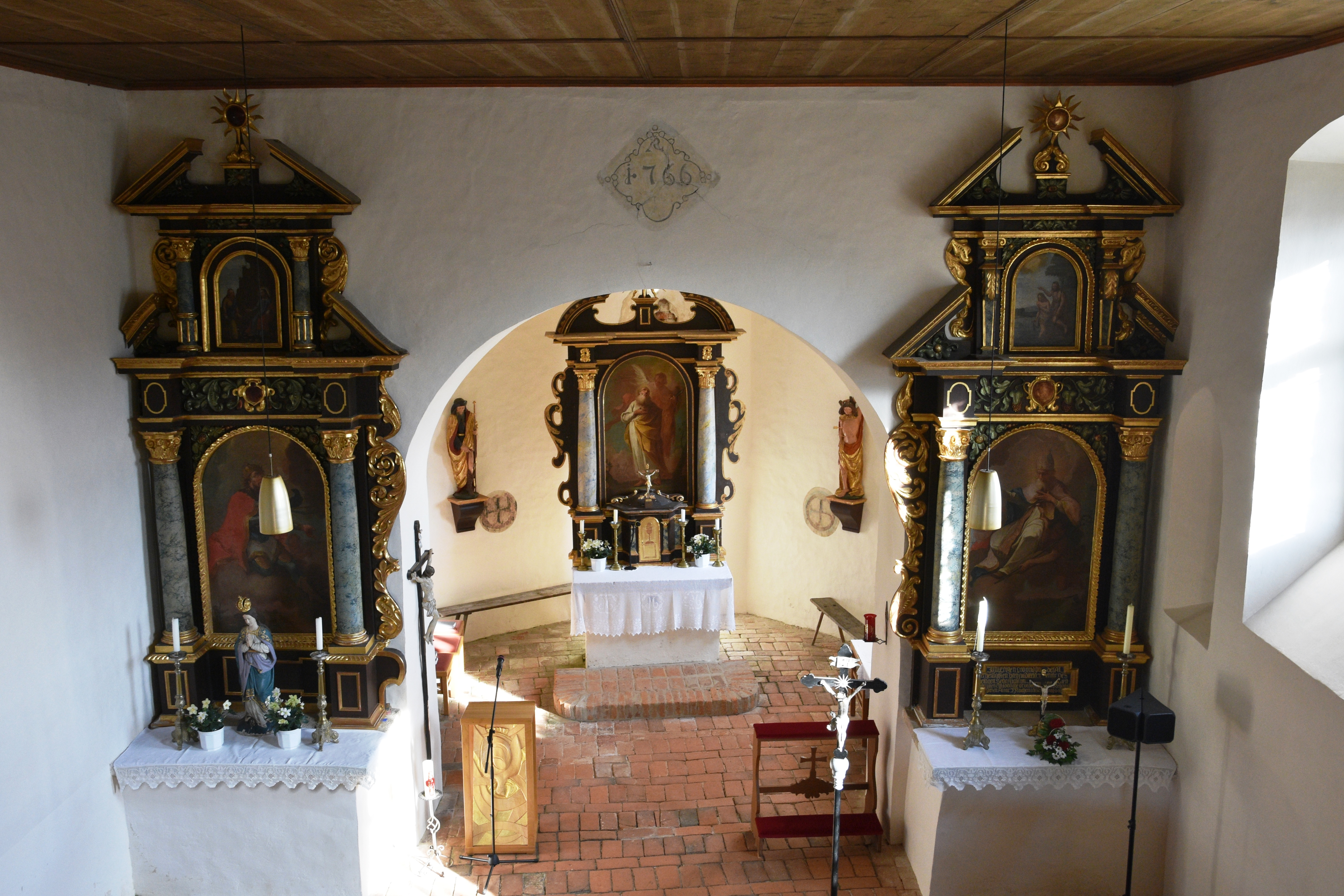 Church Kath. Filialkirche hl. Bartholomäus (Unterlimbach) Interior